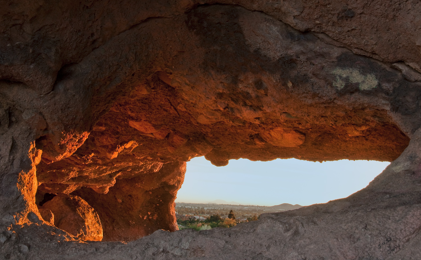 Papago Park, PHX This is a great place to watch the sun set over Phoenix. You climb up the back side of this big hill and then squeeze through the opening and you're facing west with downtown to the right and the zoo just in front.